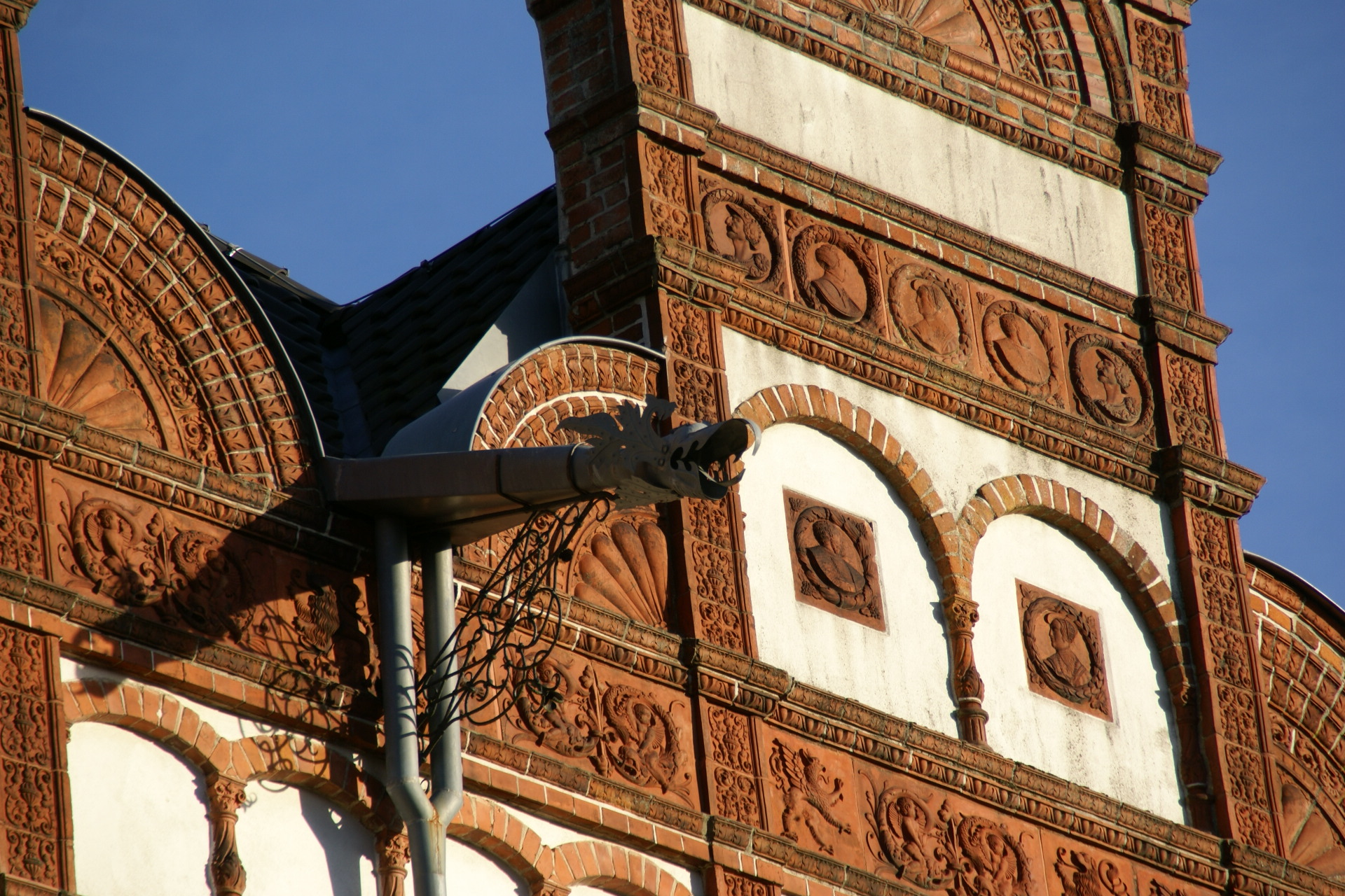 Gargoyle at the facade of Wiligrad Castle near Lübstorf, Germany